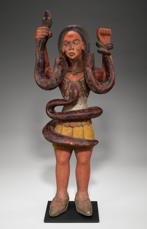 Sculpture of the African water deity Mami Wata. Nigeria (Igbo). 1950s. Wood, pigment. Original in the Minneapolis Institute of Art (